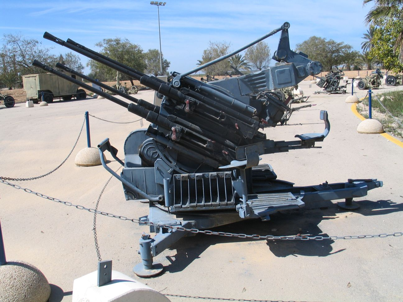 Description: Flakvierling 38 20 mm AA gun at Muzeyon Heyl ha-Avir, Hatzerim airbase, Israel. 2006. Source: Photo by me, User:Bukvoed.